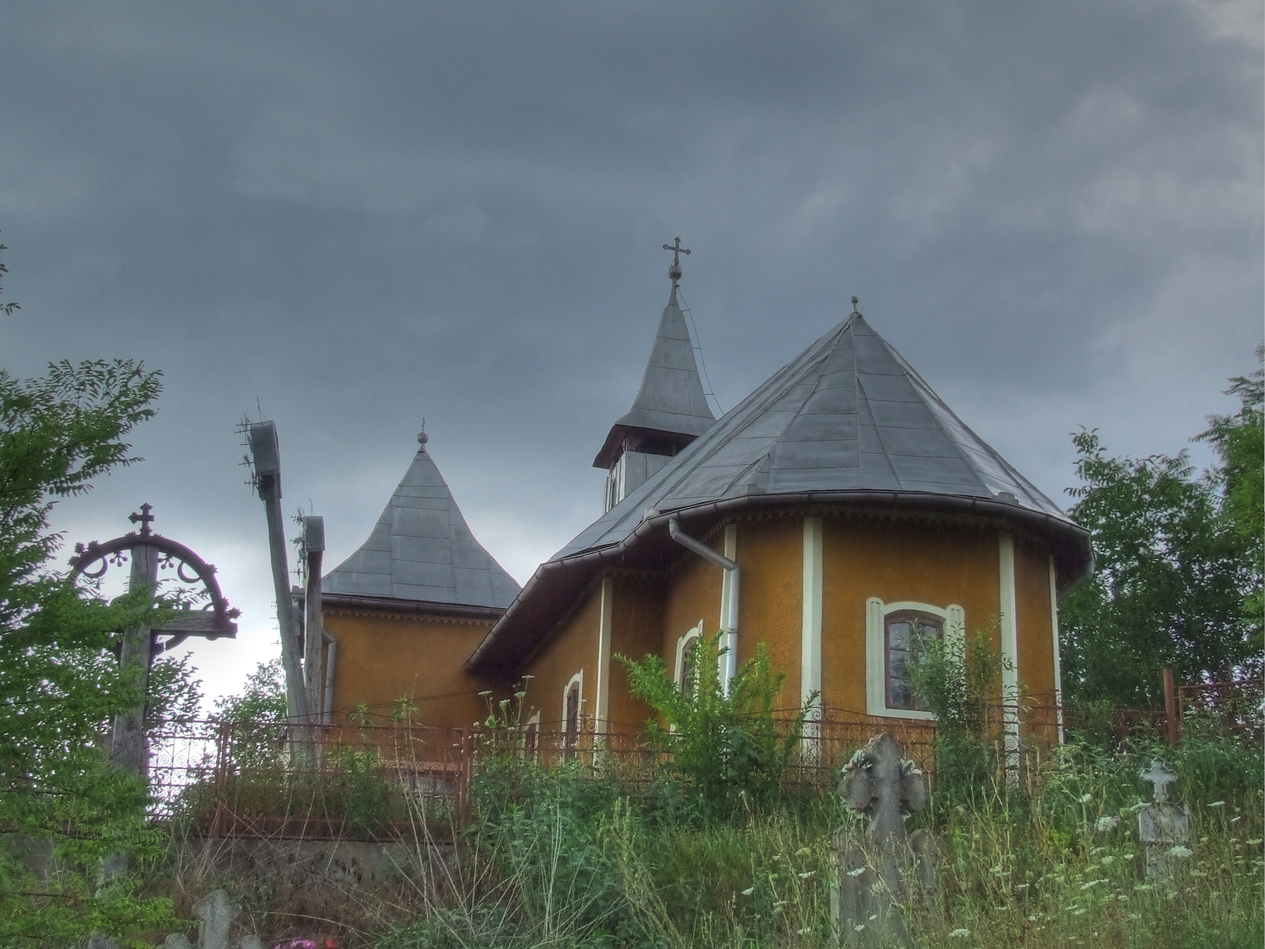 wooden Orthodox church in Manic, Romania